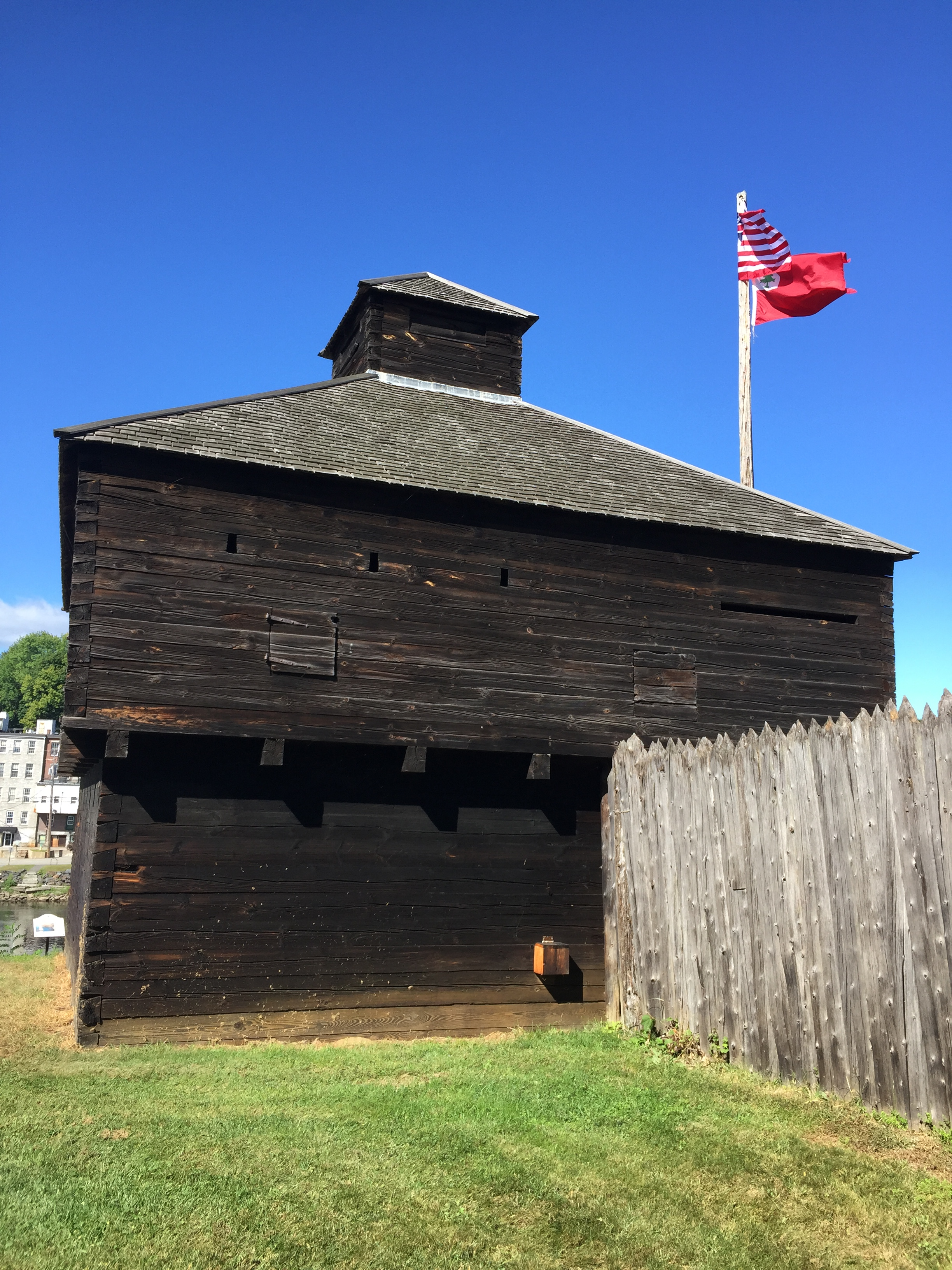 Augusta, Maine on the Kennebec River. The oldest wooden fort in New England.